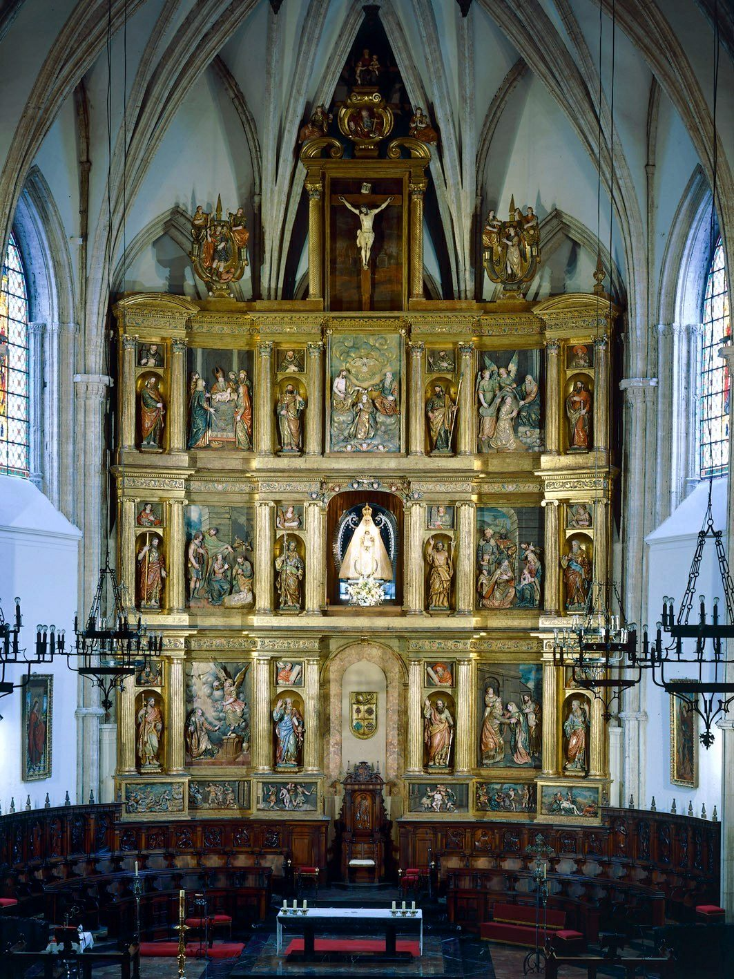 Retablo mayor de la Catedral de Ciudad Real